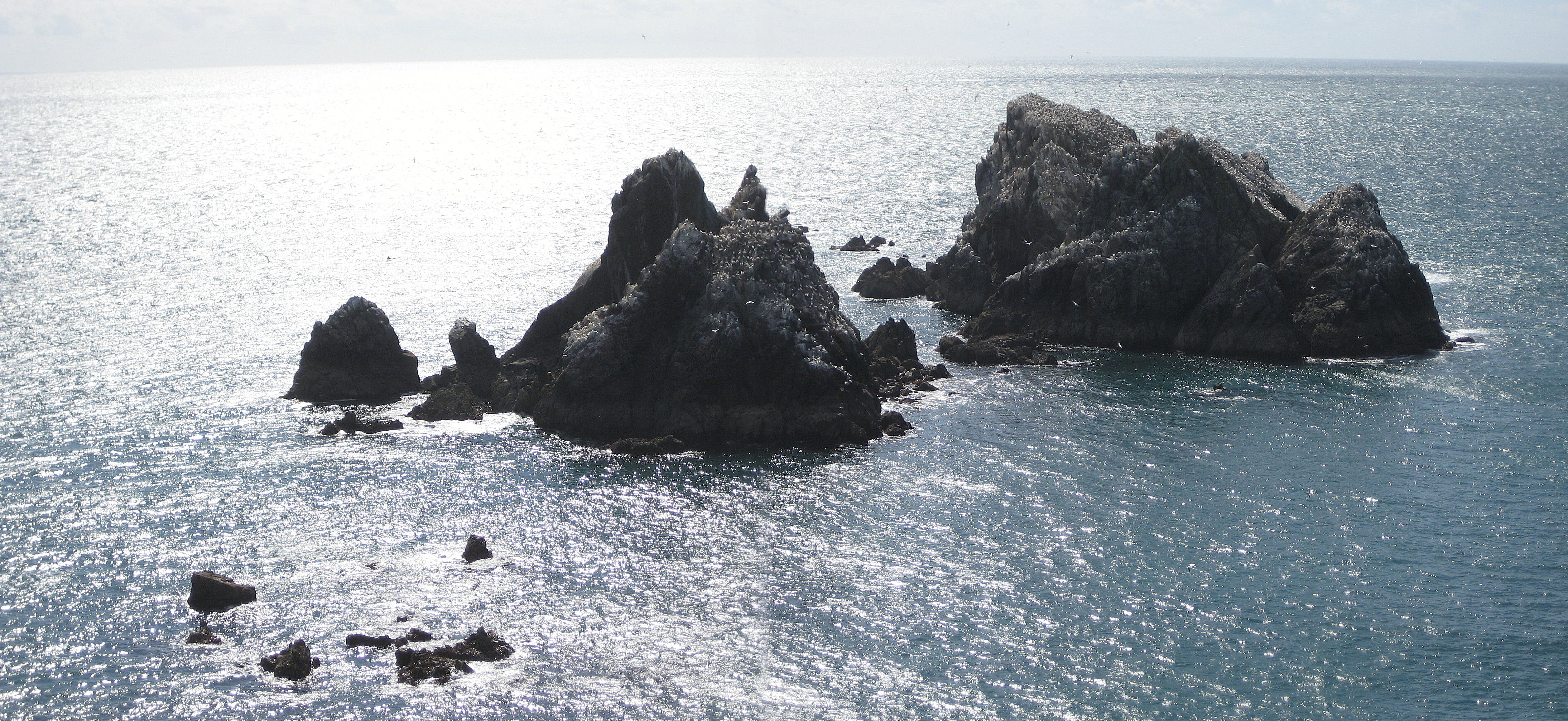 Les Étacs, Alderney Nrf: Les Étacs, Aoeur'gny